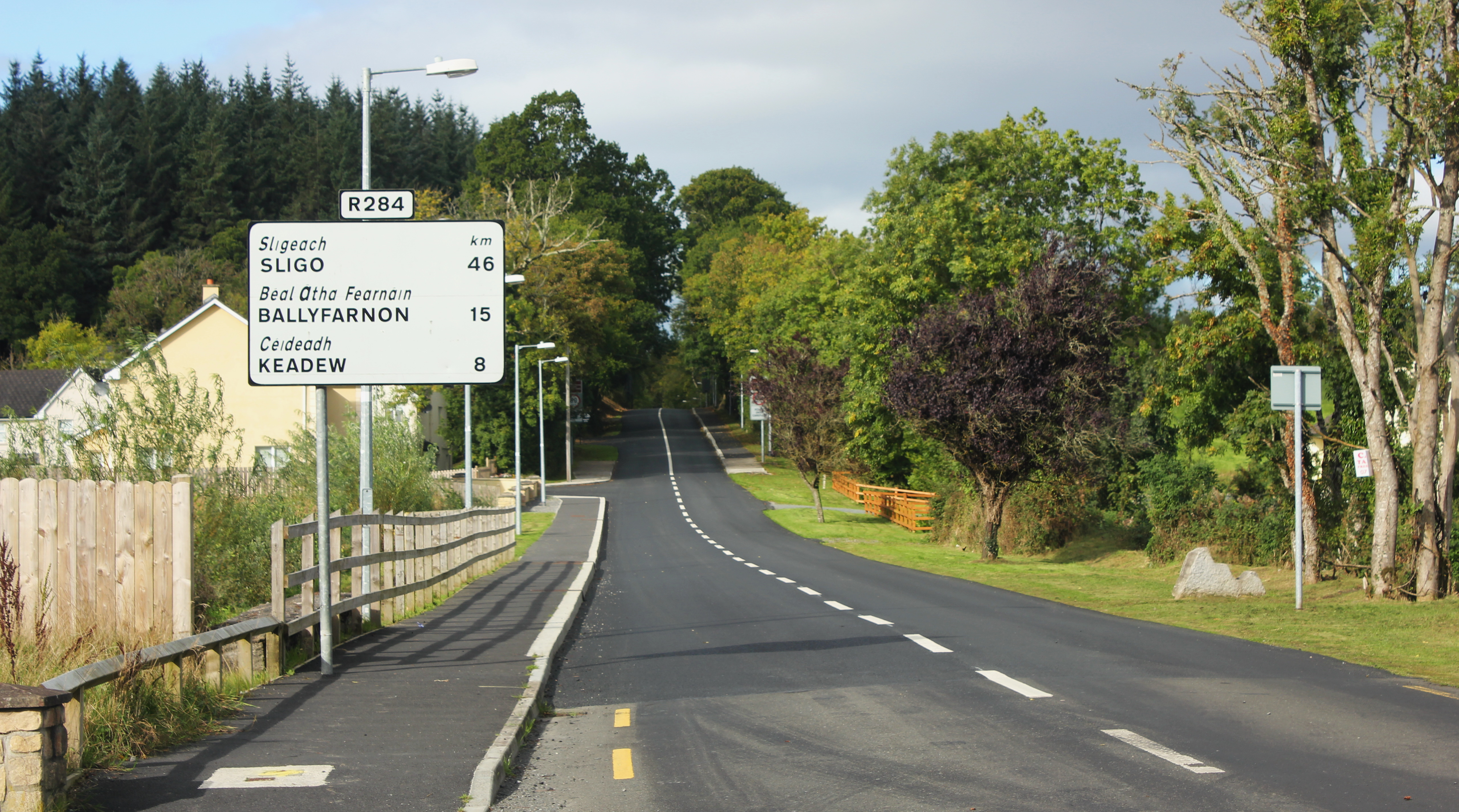 The towards Sligo leaving Leitrim Village